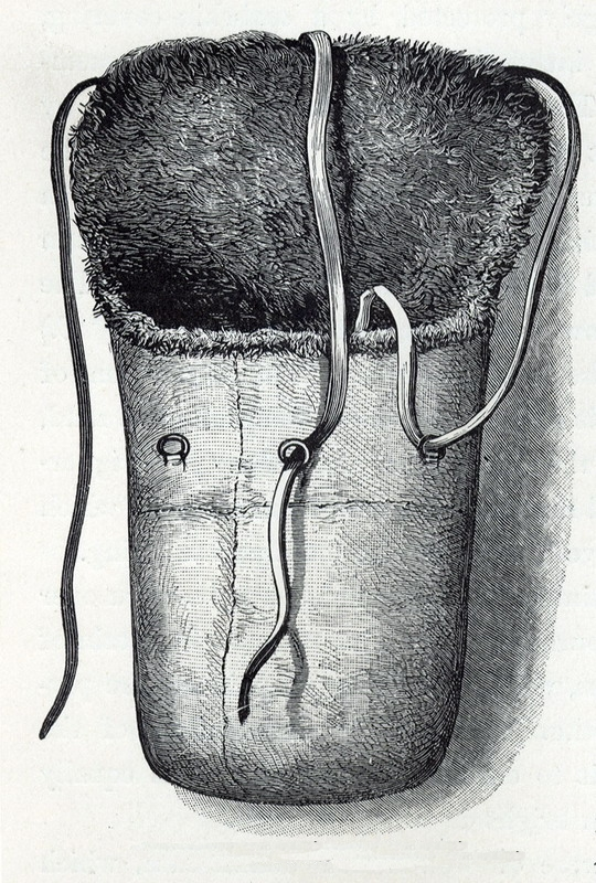 Three-person buffalo Arctic sleeping bag 1881-1884